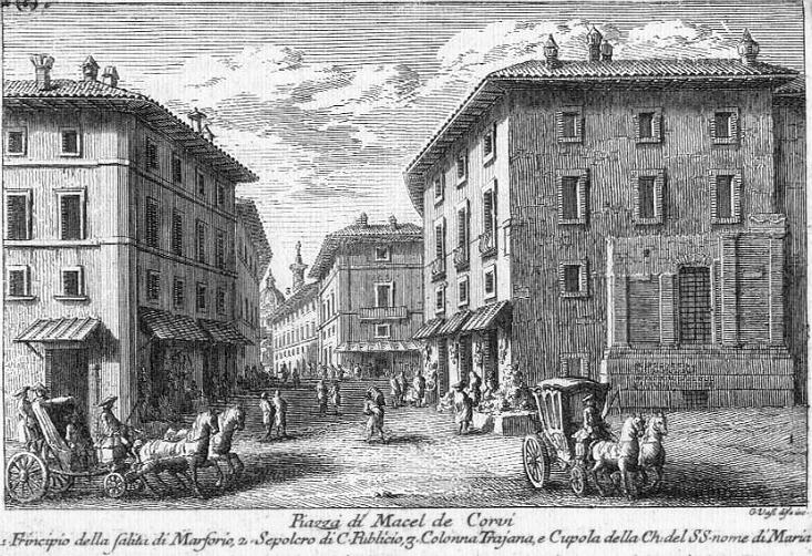 1) Salita di Marforio. This street linked Piazza Venezia with the top of Campidoglio; Marforio, a talking statue, stood there until 1595 when it was moved to Piazza del Campidoglio; 2) Tomb of Caio Publicio Bibulo; 3) Colonna Trajana and Dome of SS. Nome di Maria.